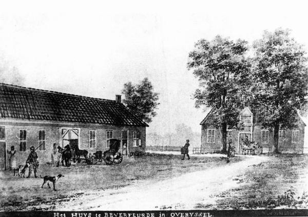 Manor house Beverfeurde (1769)